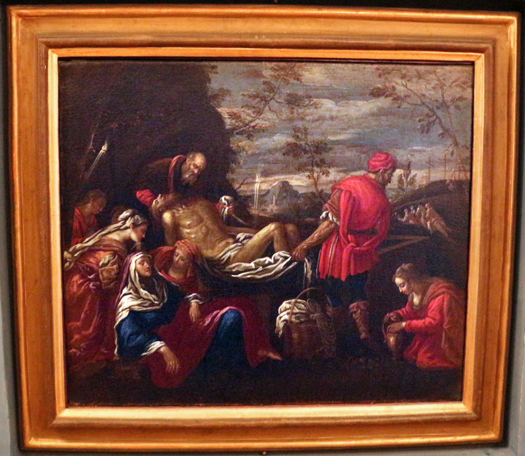 Museo Adriano Bernareggi